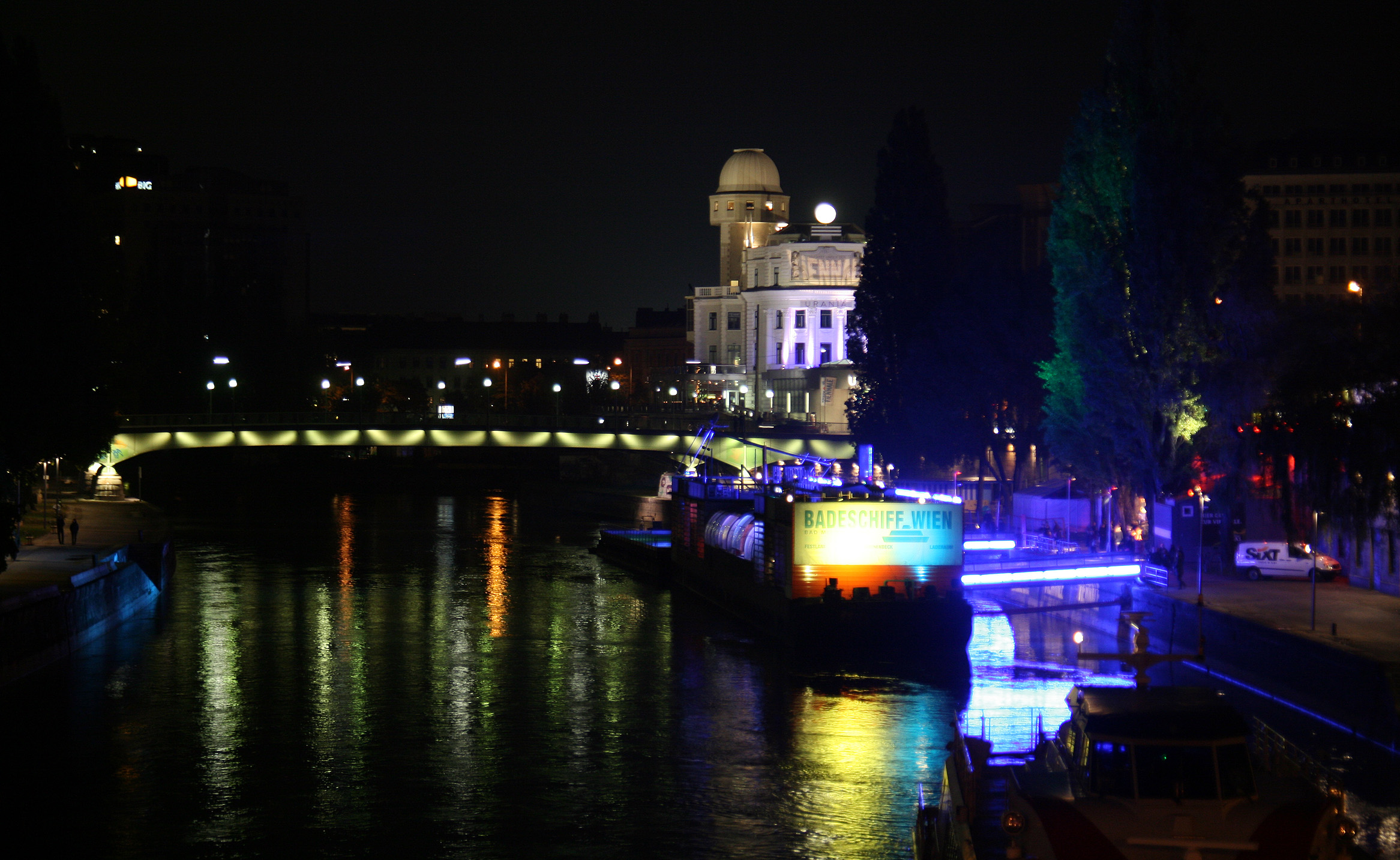 The Badeschiff on the Donaukanal, festival center of the Vienna International Film Festival 2009, Aspernbrücke and Urania.